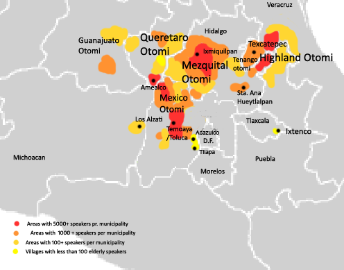 Map showing regions where the Otomi language is spoken